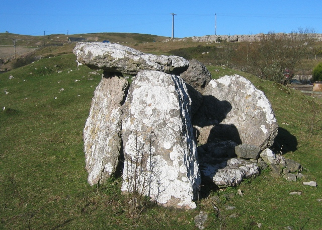 Siambr Gladdu/Burial Chamber This is the best surviving monument to the Stone Age on The Great Orme. Originally it would probably have been covered with an earth mound. On the skyline, immediately above the chamber, is one of the supports for the Llandudno Cable Car system.